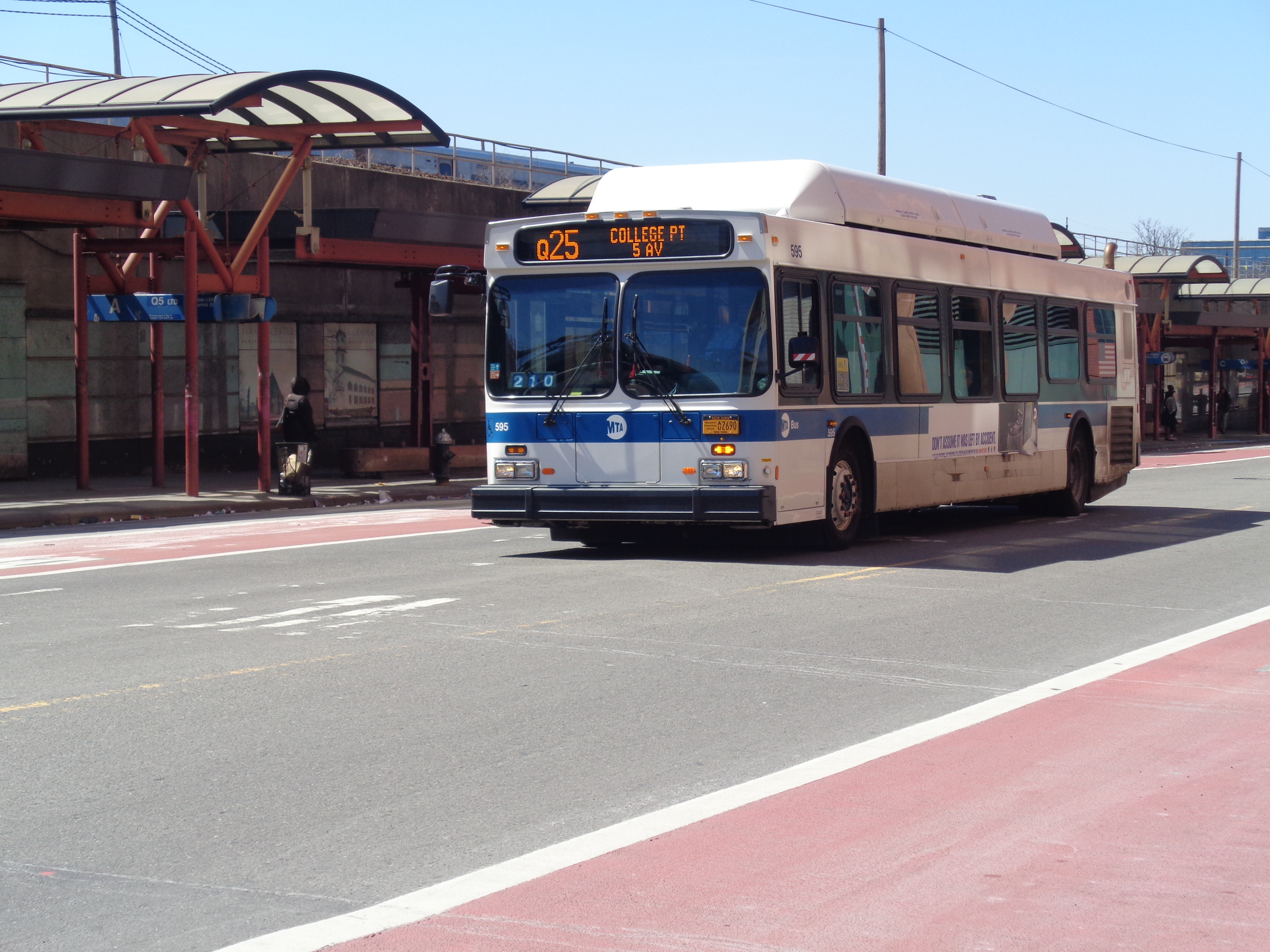 A College Point-bound Q25 bus turning from Archer Avenue onto Parsons Boulevard in Jamaica Center, Queens.